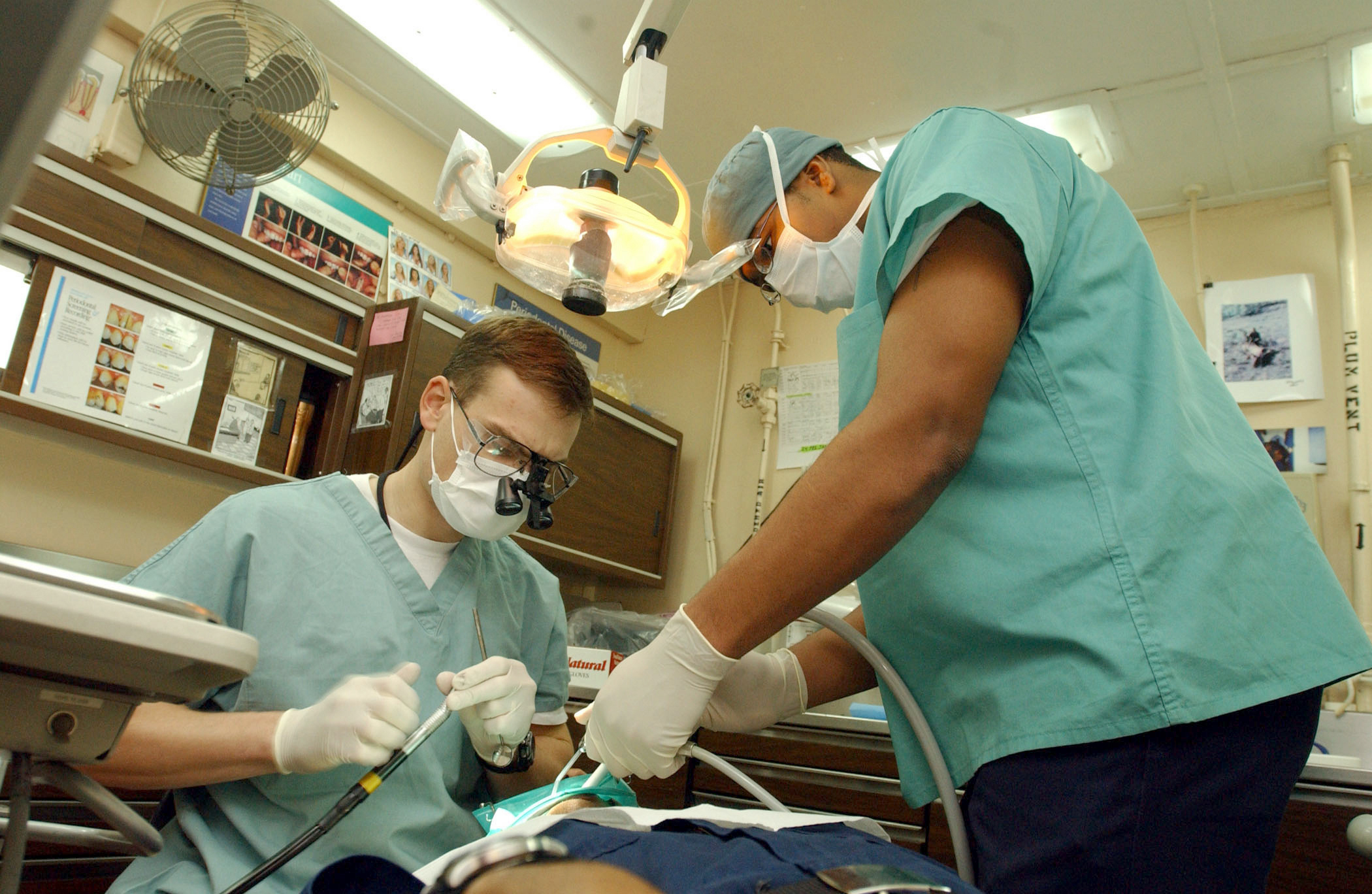 At sea aboard USS Theodore Roosevelt (CVN 71) Jan. 24, 2003 -- Navy Dentist Lt. Benjamin Anderson (seated left) from Farmville, Va., and Dental Technician Lennard Henry from Ashland, Ky., perform a routine procedure on one of the ship’s crew. Aircraft carriers have extensive dental and surgical facilities designed to support the entire carrier battle group. Theodore Roosevelt is currently underway in the Caribbean Sea conducting training missions before deployment. U.S. Navy photo by Chief Photographer’s Mate Eric A. Clement. (RELEASED)